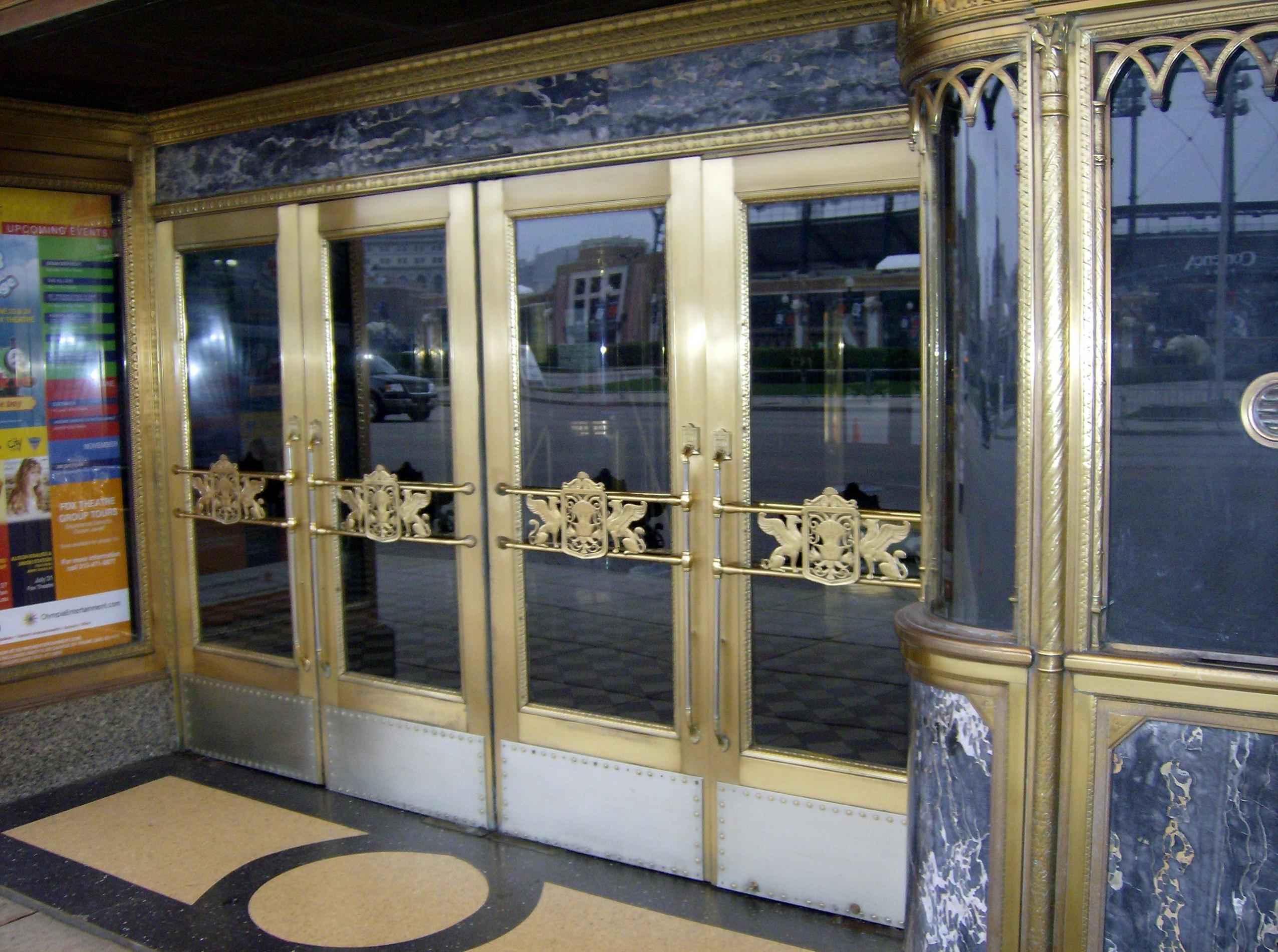 Fox Theatre Detroit